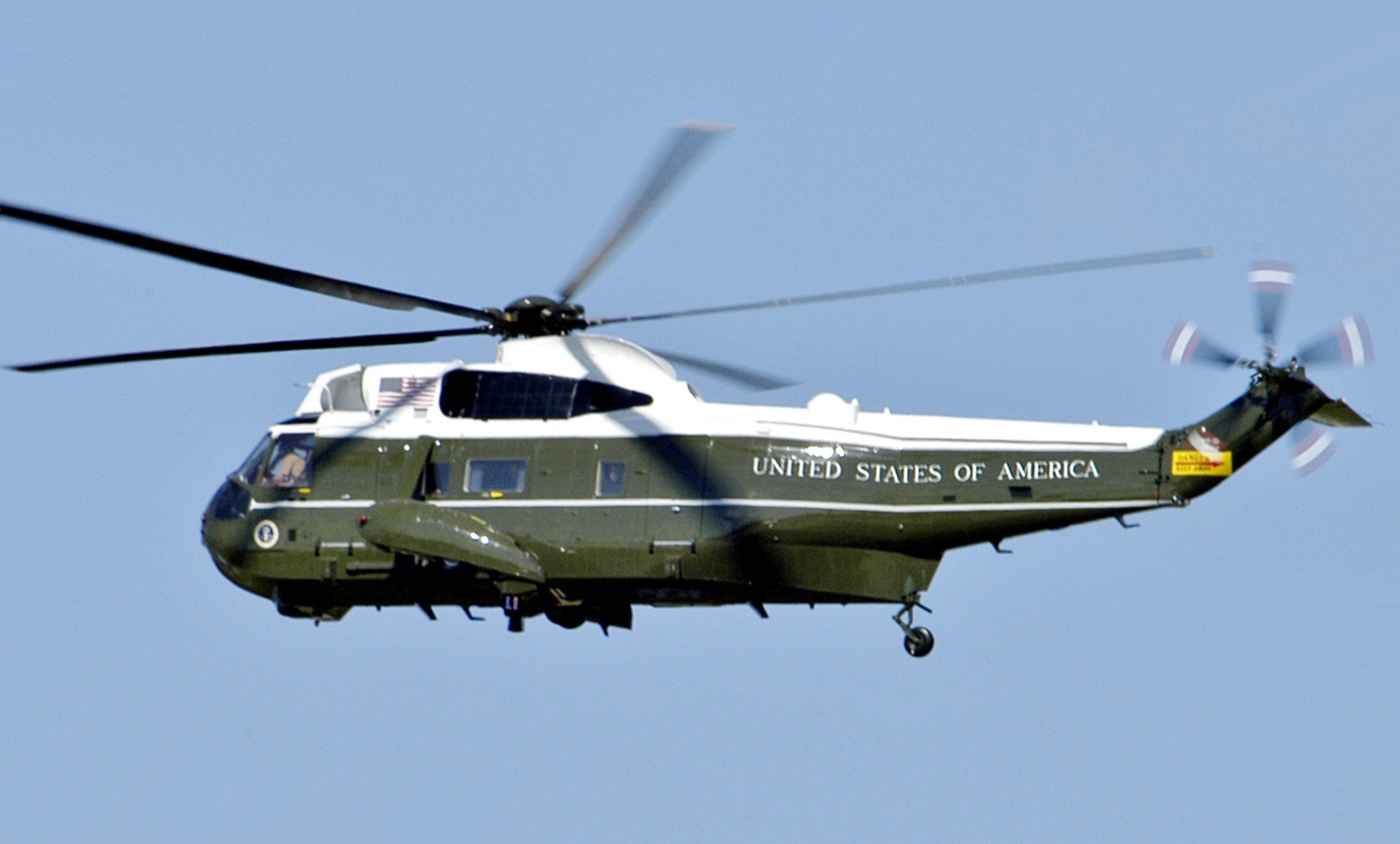 A U.S. Marine Corps Sikorsky VH-3D Sea King helicopter, assigned to Marine Helicopter Squadron 1 (HMX-1), in flight over Washington D.C. on 21 May 2005. The VH-3D was flying the U.S. president George W. Bush to the White House from Andrews Air Force Base, Maryland (USA). Mr. Bush was returning from Grand Rapids, Michigan (USA), after giving a graduation speech to the 2005 graduates of Calvin College.